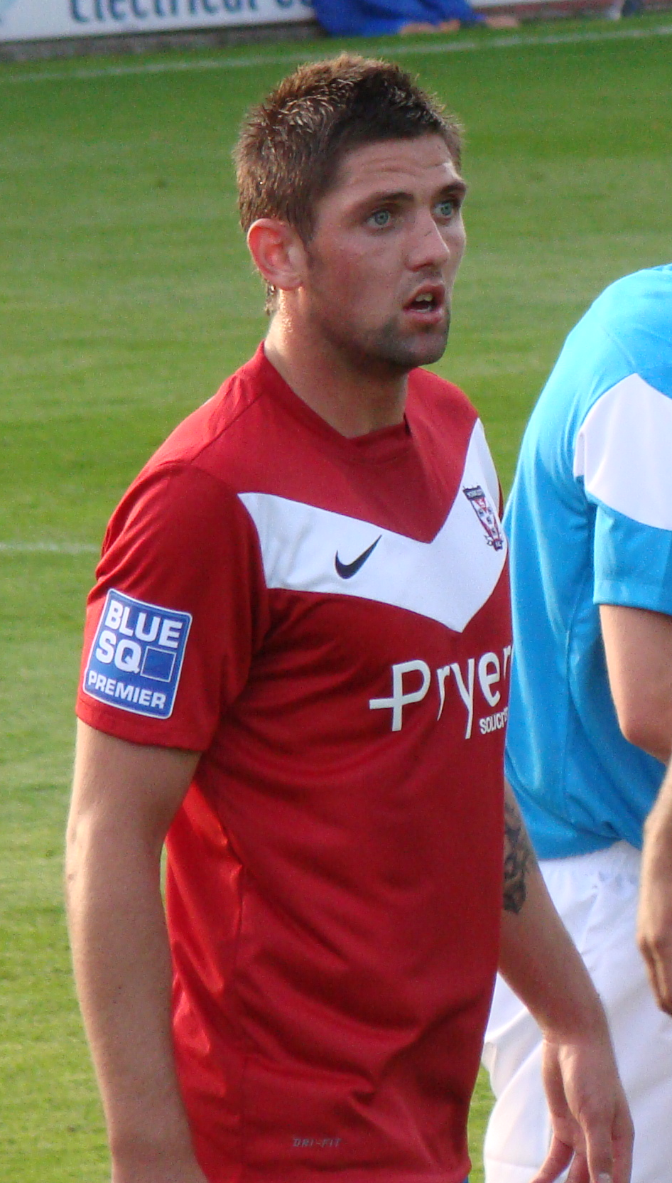 Liam Henderson. Image cropped from original at flickr.